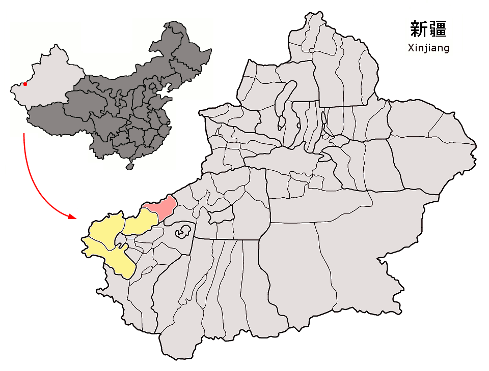 Location of Akqi County (pink) and Kizilsu Prefecture (yellow) within Xinjiang autonomous region of China Map drawn in september 2007 using various sources, mainly : Xinjiang Uygur autonomous region administrative regions GIS data: 1:1M, County level, 1990 Xinjiang Counties map from